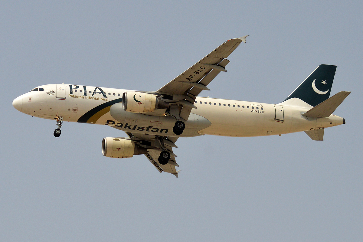 Pakistan International Airlines, AP-BLC, Airbus A320-214